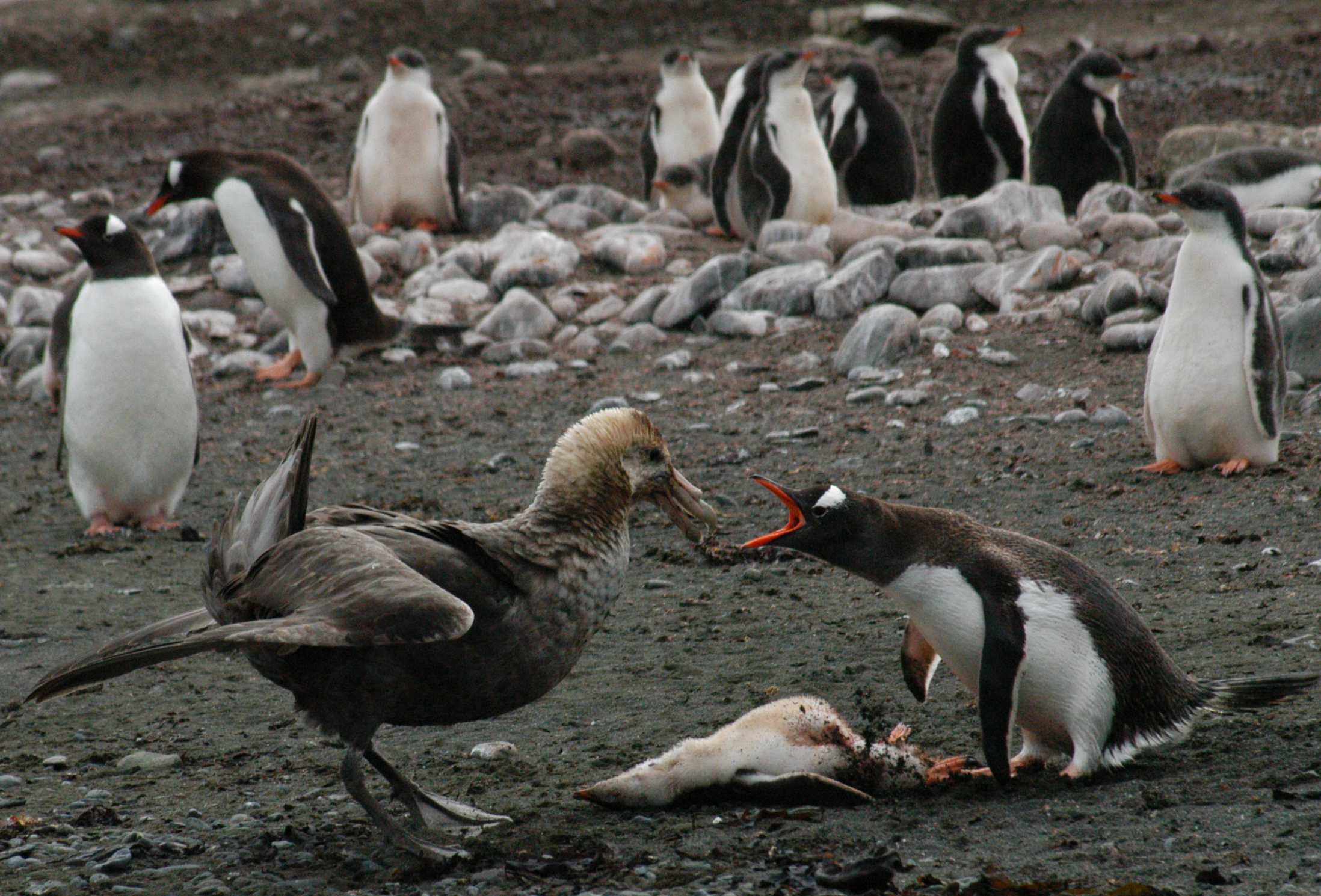 An adult Gentoo penguin (Pygoscelis papua) confronting a Southern Giant Petrel (Macronectes giganteus).